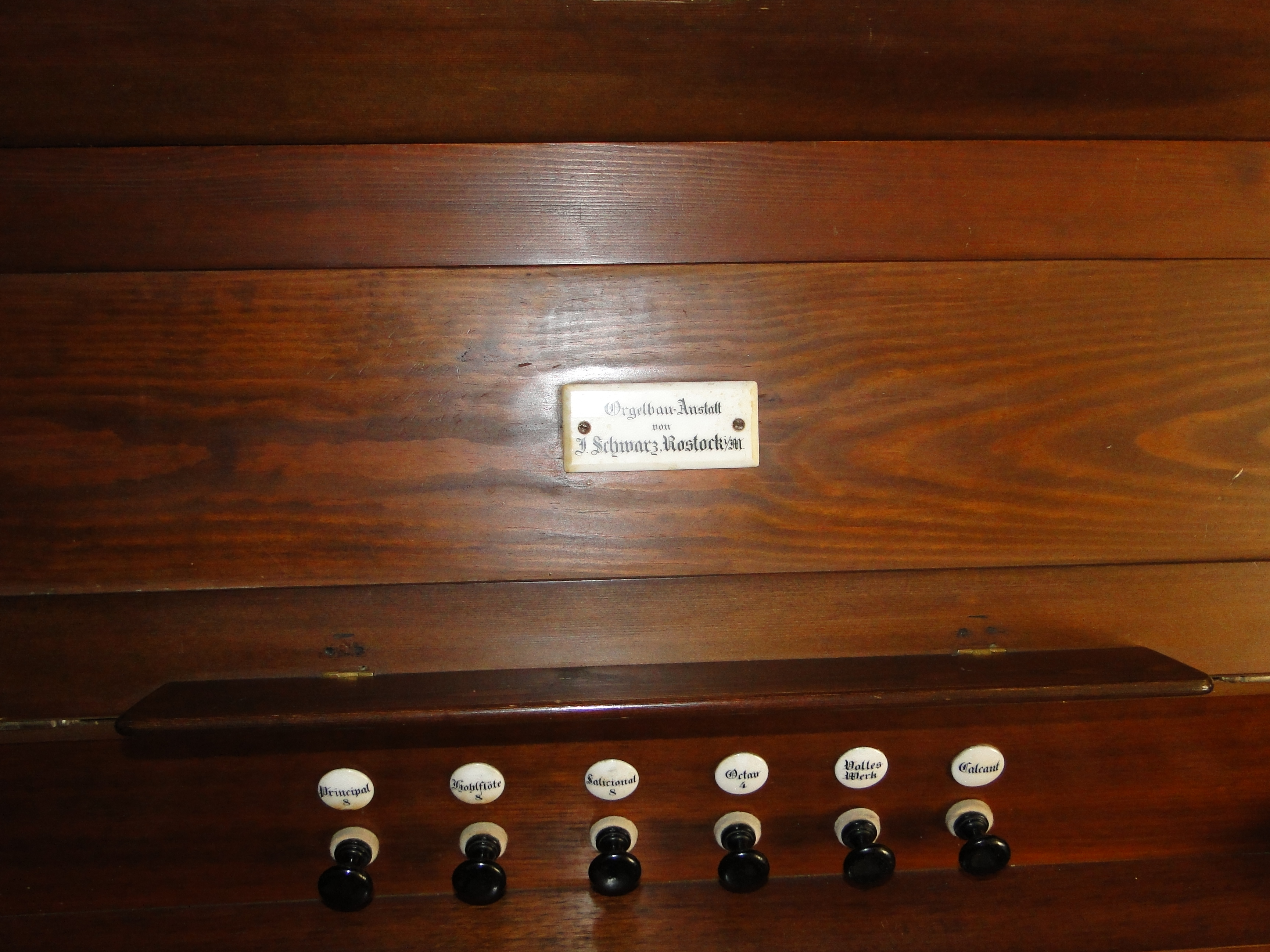 Church in Techentin, district Ludwigslust-Parchim, Mecklenburg-Vorpommern, Germany